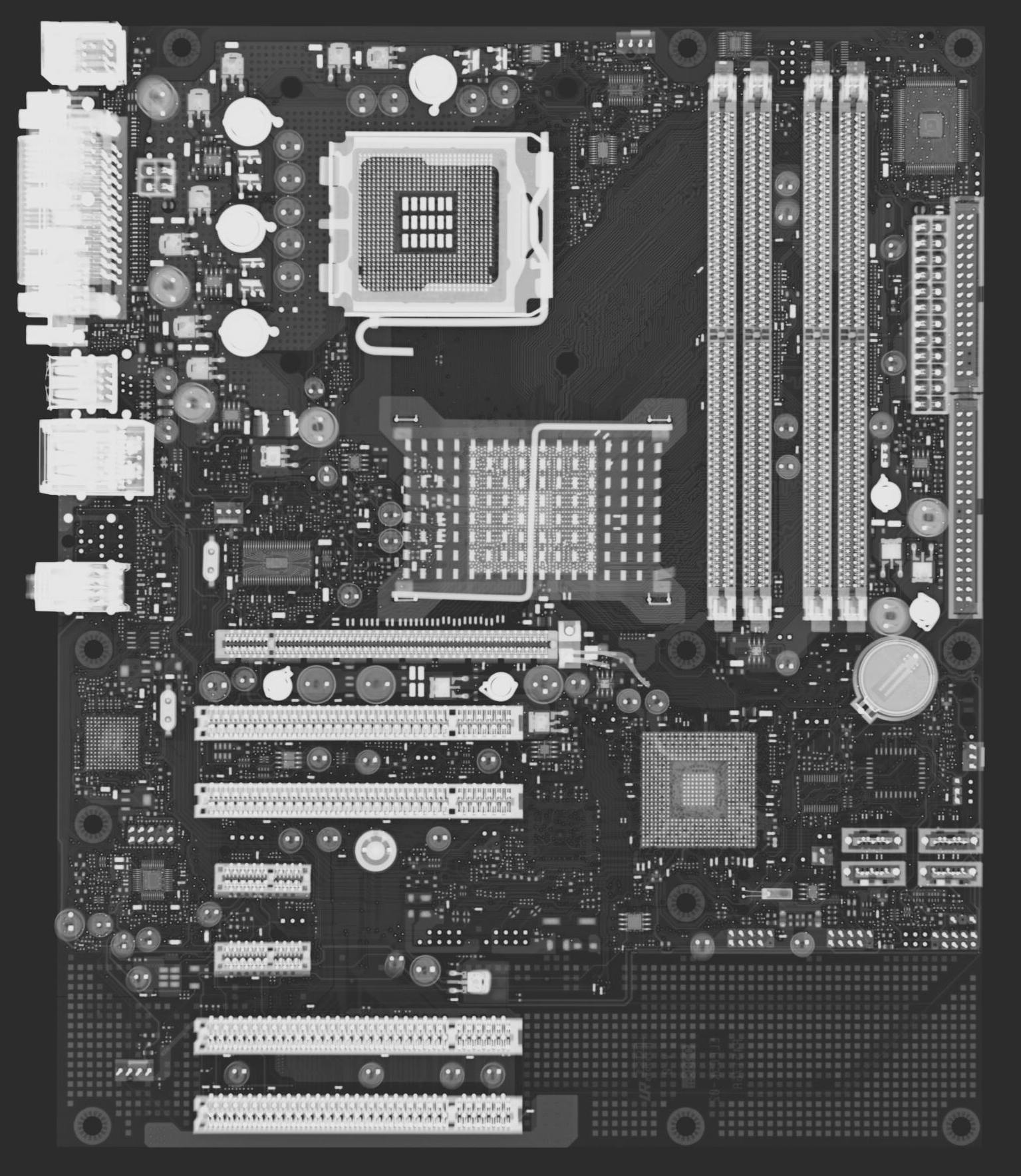 radiograph of a motherboard